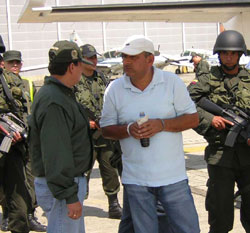 Dagoberto being escorted by Colombian officials. US Government Source: ICE: Immigration and Customs